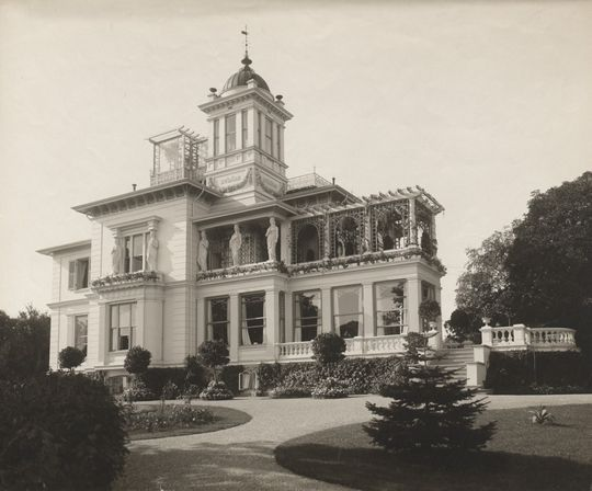 The country house Hvidøre at Klampenborg north of Copenhagen, Denmark.